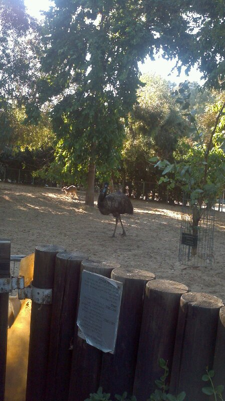 Wildlife and Plants of Israel